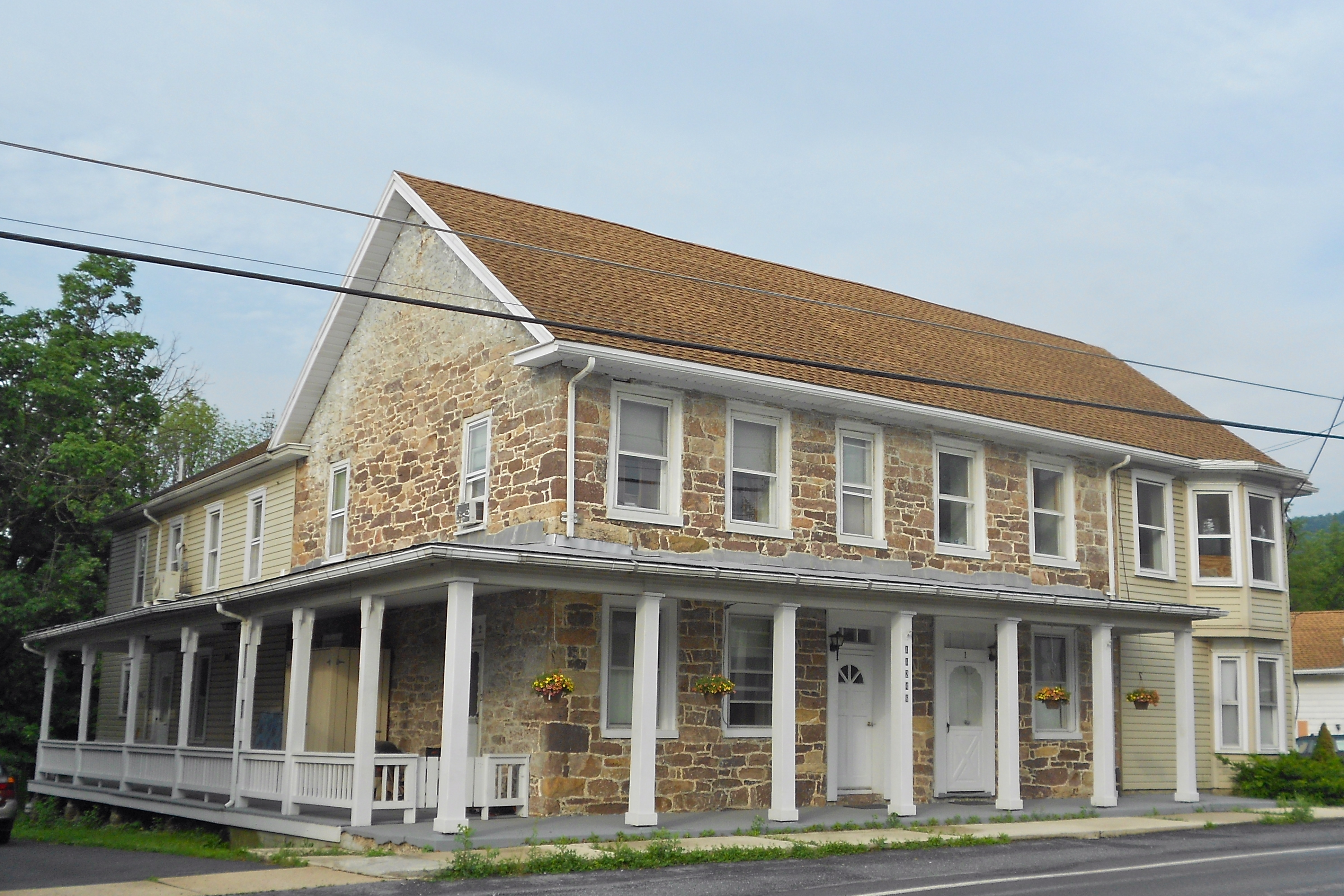 Building in Roxbury, Franklin County, Pennsylvania